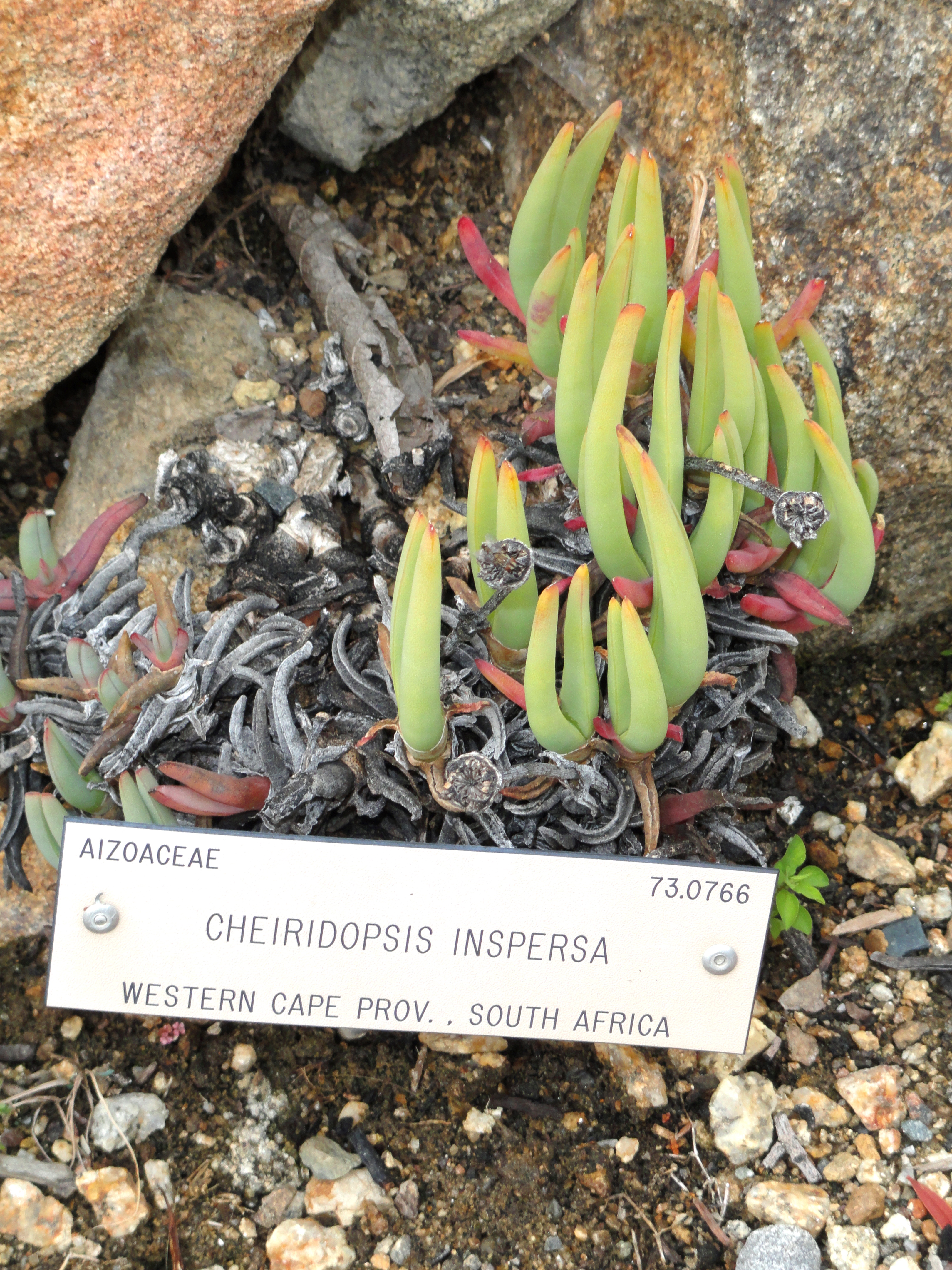 Cheiridopsis inspersa specimen in the University of California Botanical Garden, Berkeley, California, USA.